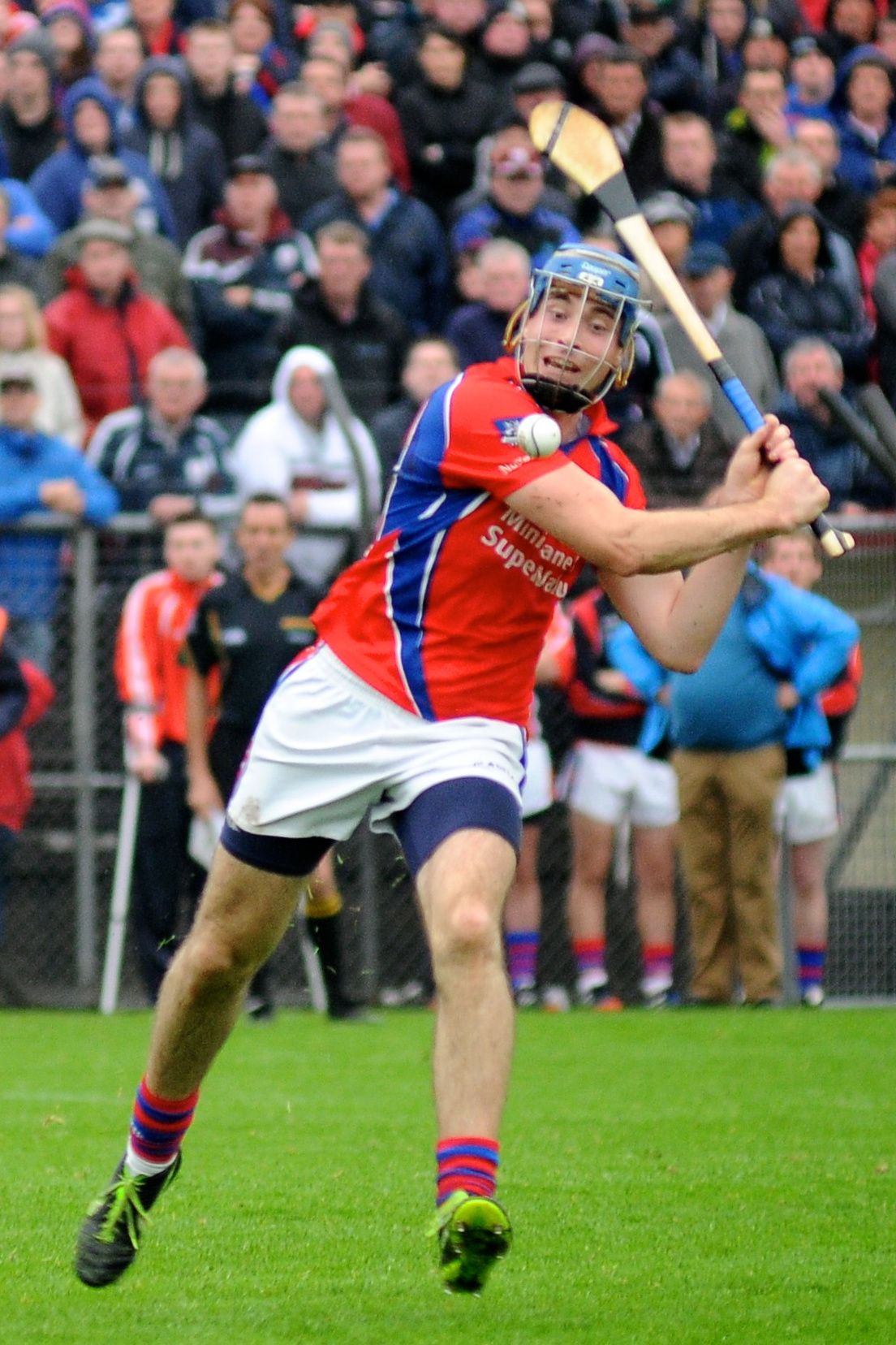 Conor Cooney in action against Portumna in the 2013 Galway Senior Hurling Semi-final in Athenry